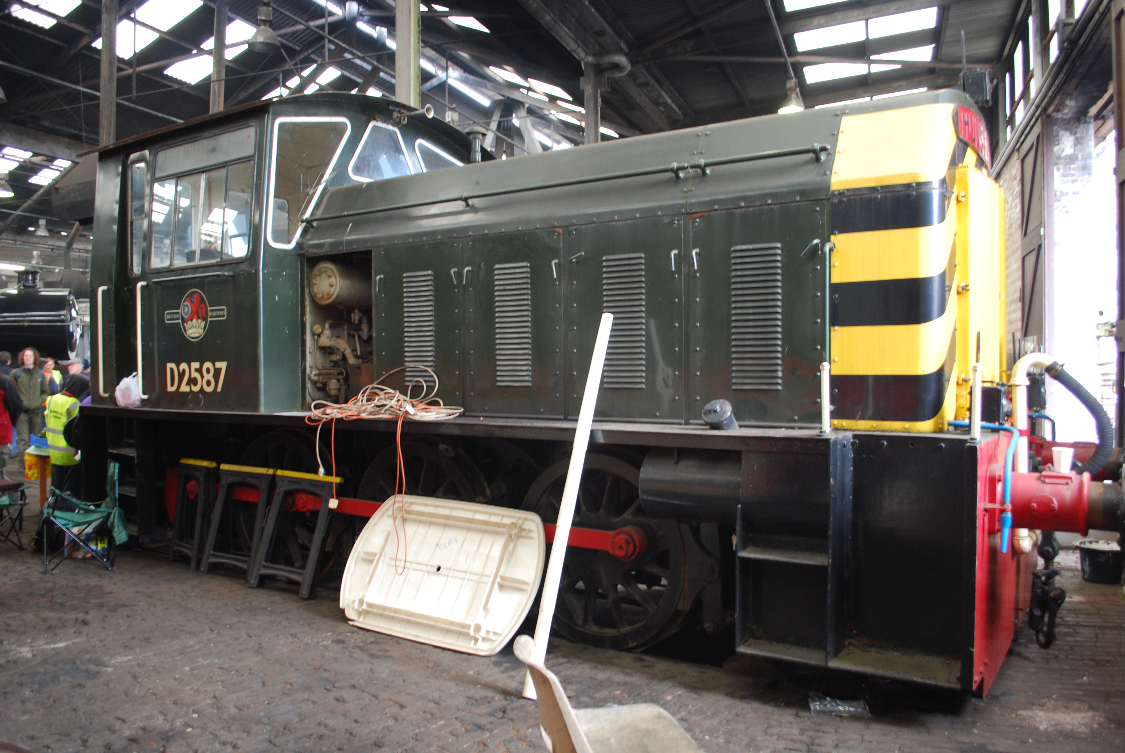 Preserved Hunslet Class "05" 204 hp 0-6-0 No.D2587 (Hunslet No.5636 of 1959; rebuilt Hunslet No.7180 in 1969) in BR green livery at Barrow Hill, 04/12. This loco is of the 2nd series with taller cab and extra side window above the others.